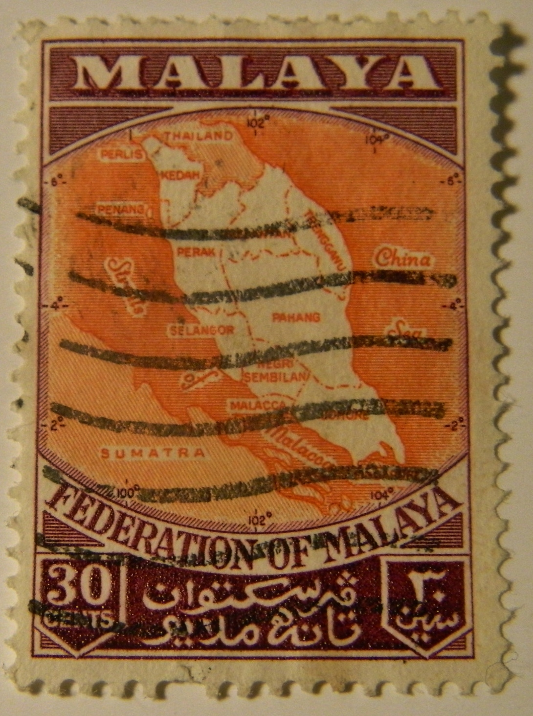 Peninsular Malaysia on Malayan Postage Stamp